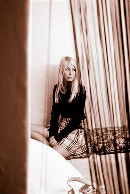 Luxembourgish-Icelandic singer and actress Thorunn Egilsdottir